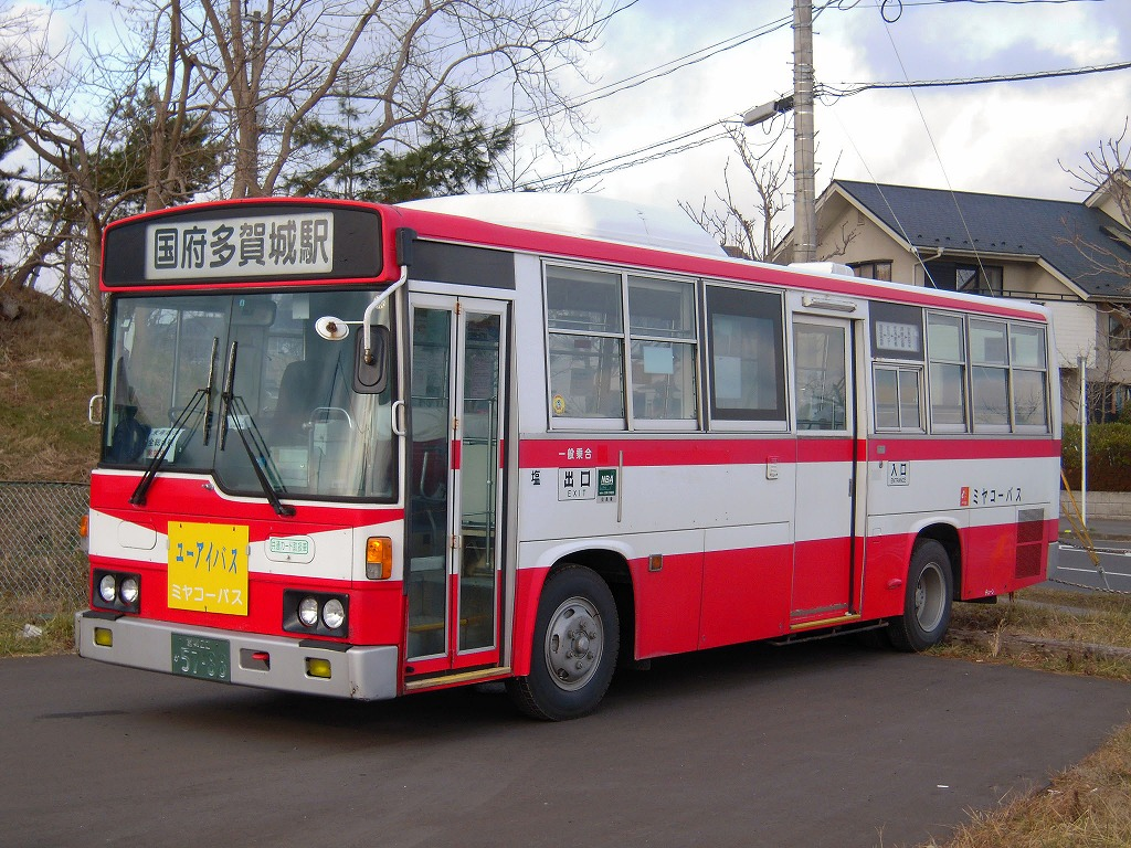 Miyako bus HINO Rainbow RJ (U-RJ3HJAA)Yu-Ai-bus(Tagajo city and Shichigahama town bus)